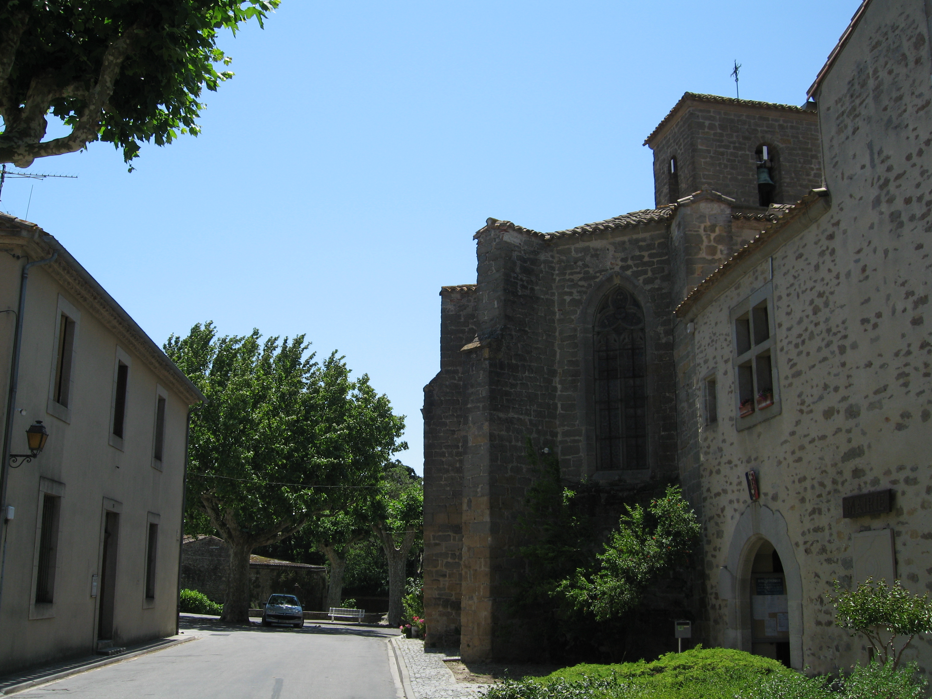 Church and Mayors office in Caux et Sauzens near Carcassonne